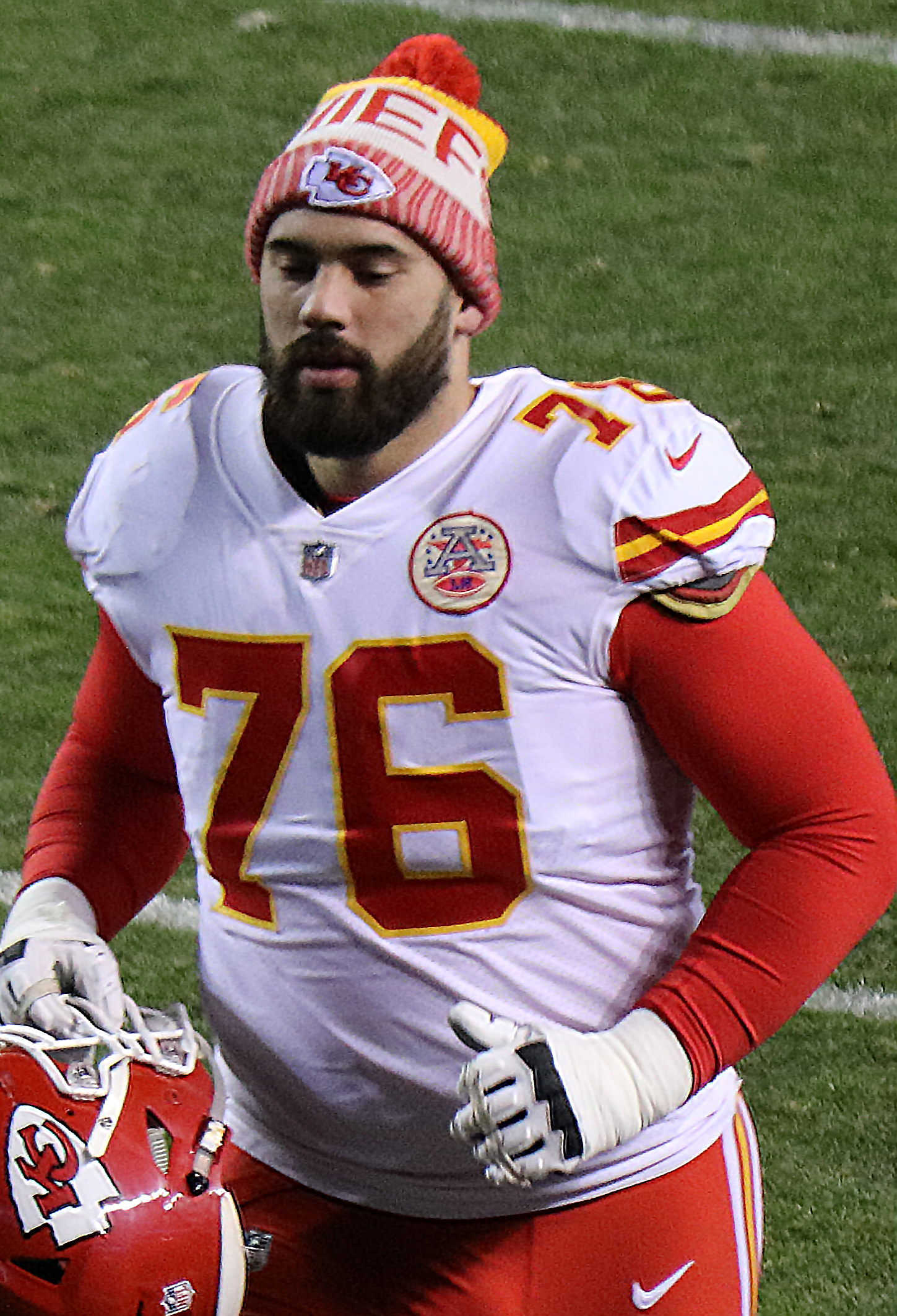 Laurent Duvernay-Tardif, a National Football League player.